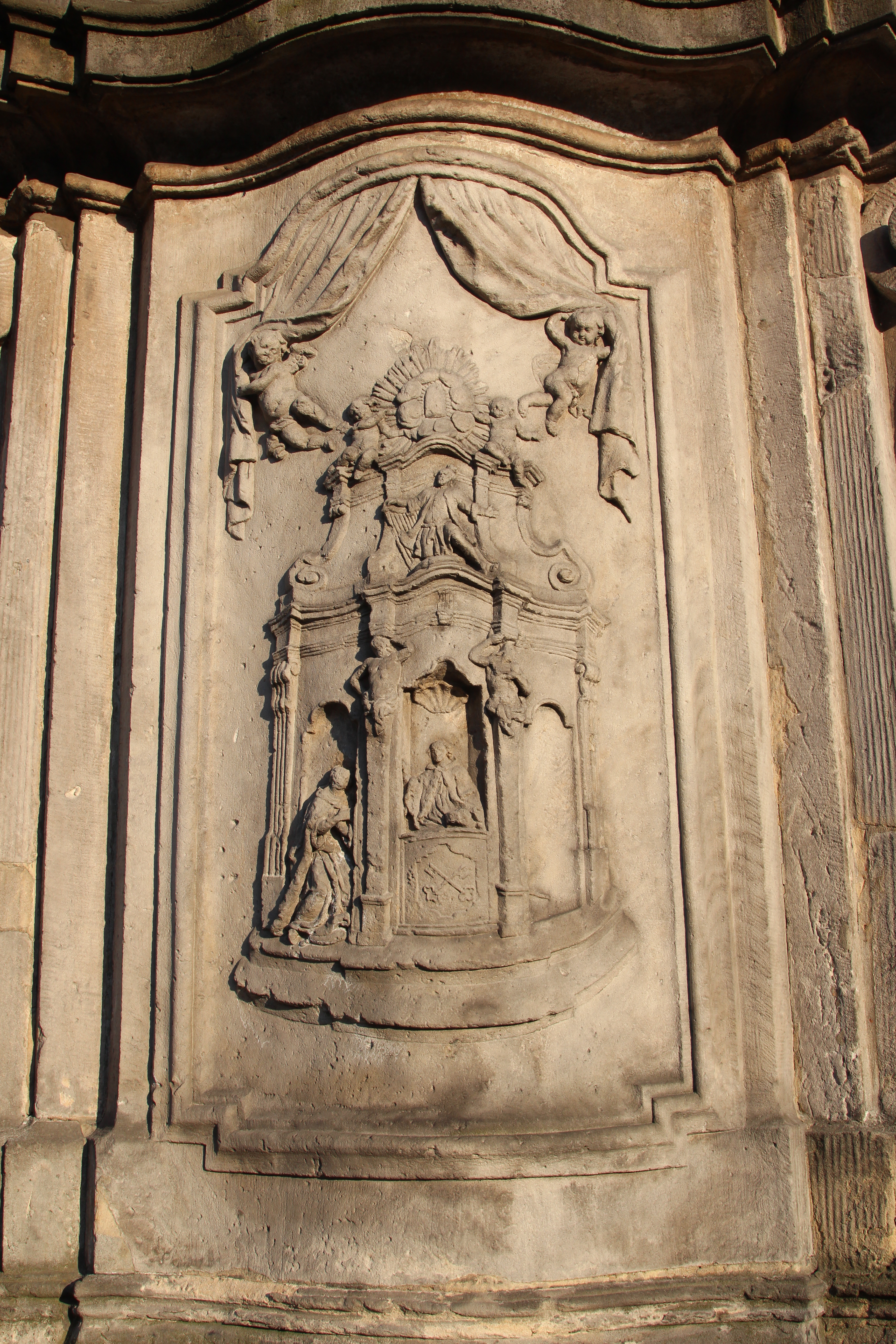 Relief from statue of Mary with Child and St. John of Nepomuk in front of Lesnica Castle.